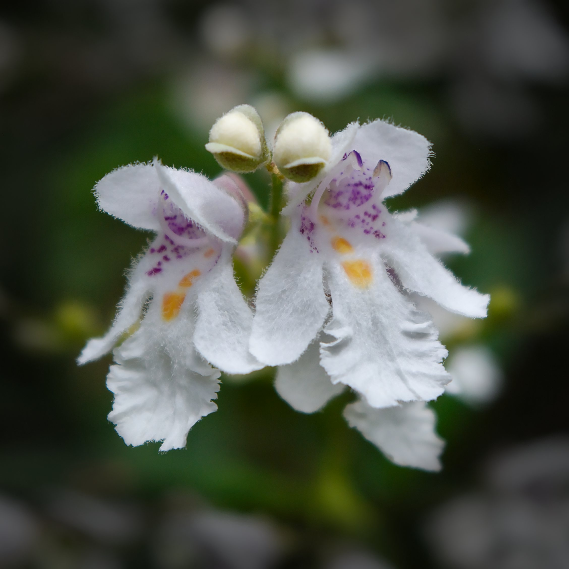 Flowers of Prostanthera lasianthos